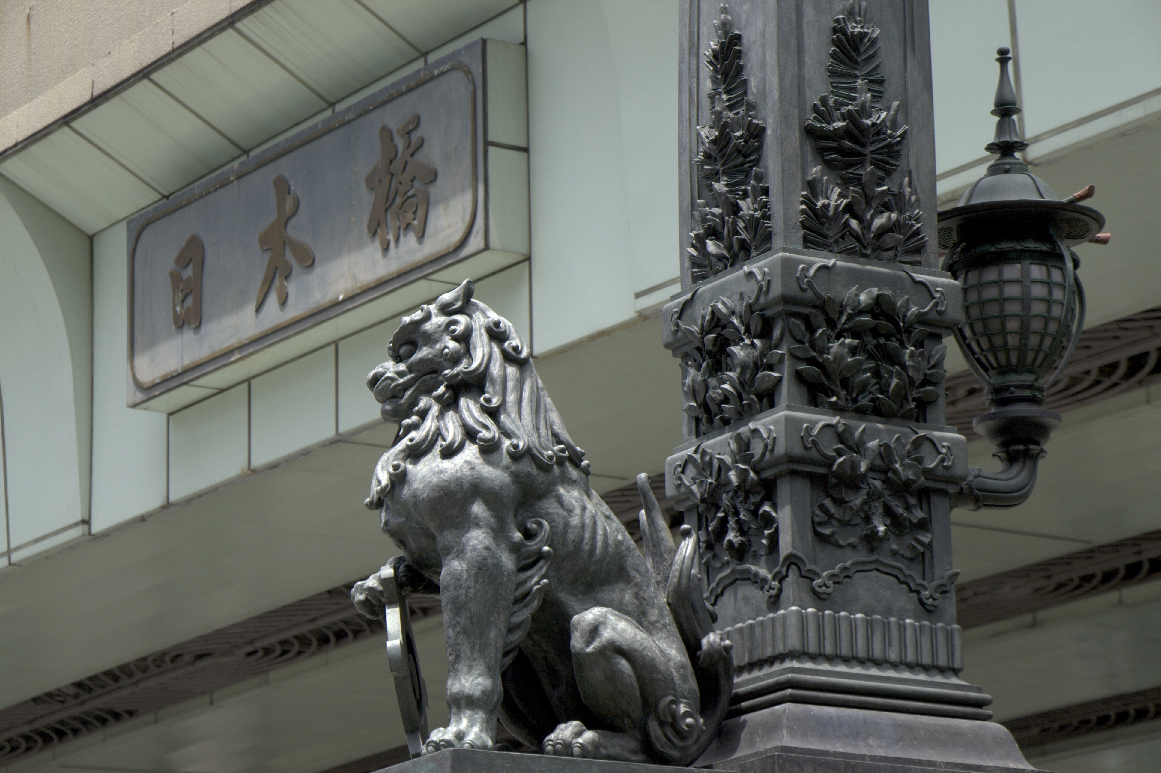 Lion at the Nihonbashi (Japan-Bridge, written in Kanji on sign) in Tokyo/Japan